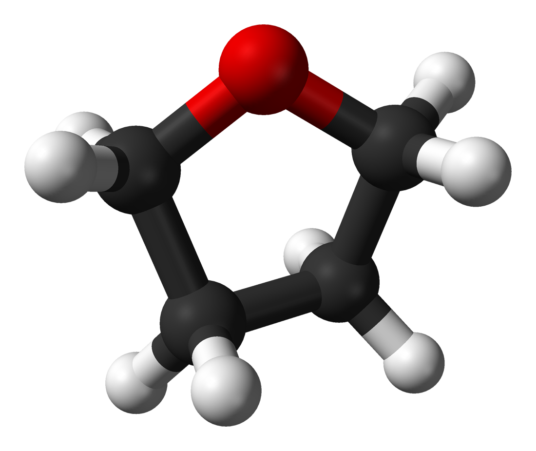 Ball-and-stick model of the tetrahydrofuran molecule. Structure calculated in Spartan using the HF/3-21G basis set.